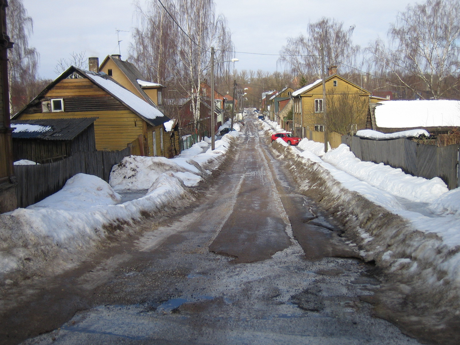 Tartu, Supilinn Quarter, Meloni Str in early spring